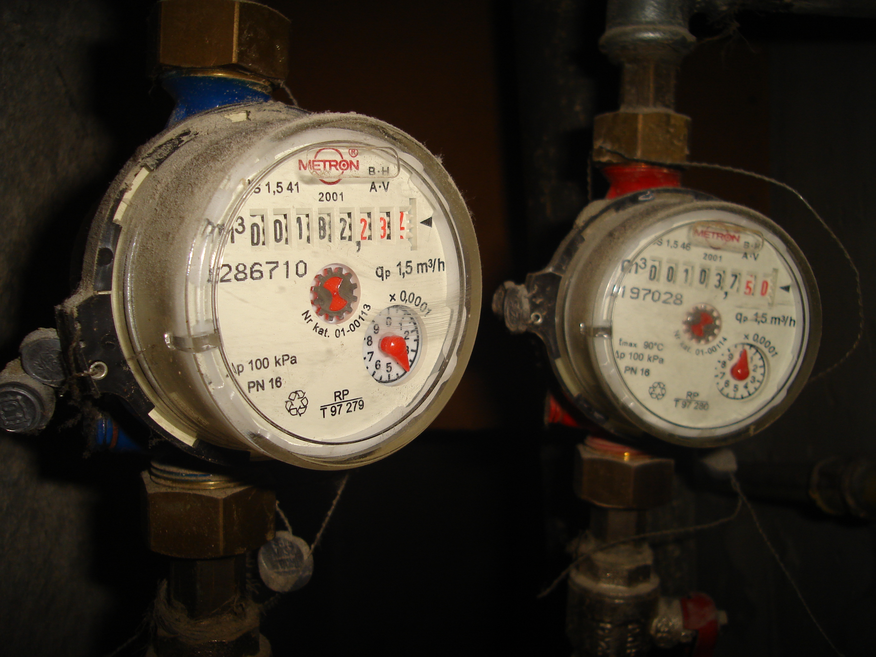 a pair of water meters: blue - cold water (on the left), red - hot water (on the right)